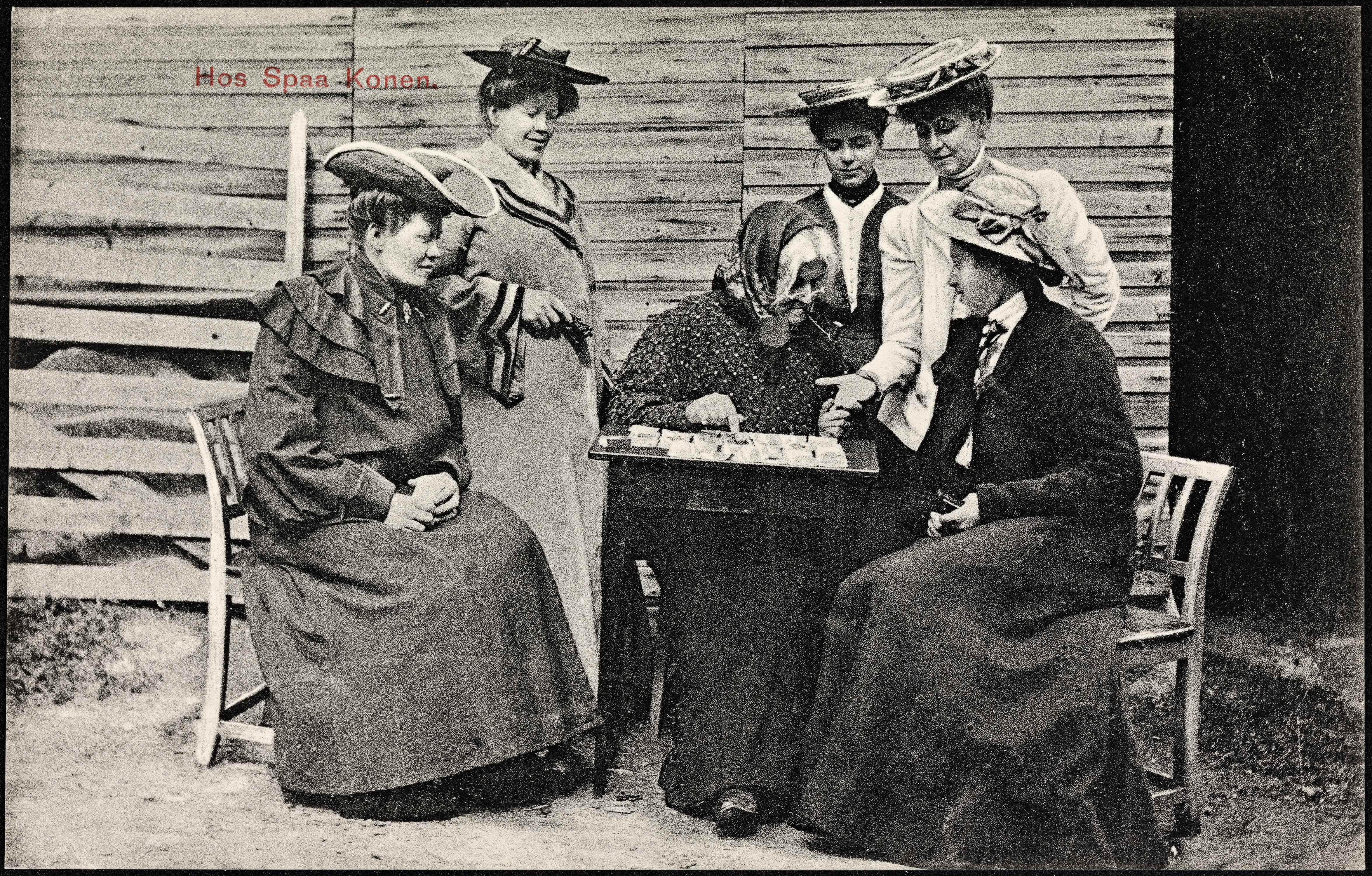 Beskrivelse / Description: Postkort / postcard. Hos spåkonen / At the fortune teller. Dato / Date: ukjent / unknown Fotograf / Photographer: ukjent / unknown Utgiver / Publisher: N. K. Digital kopi av original / Digital copy of original: postkort, lystrykk, s/h Eier / Owner Institution: Nasjonalbiblioteket / National Library of Norway Lenke / Link: Bildesignatur / Image Number: blds_06191